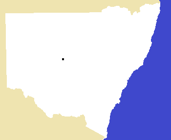 A map of Chaucer, New South Wales